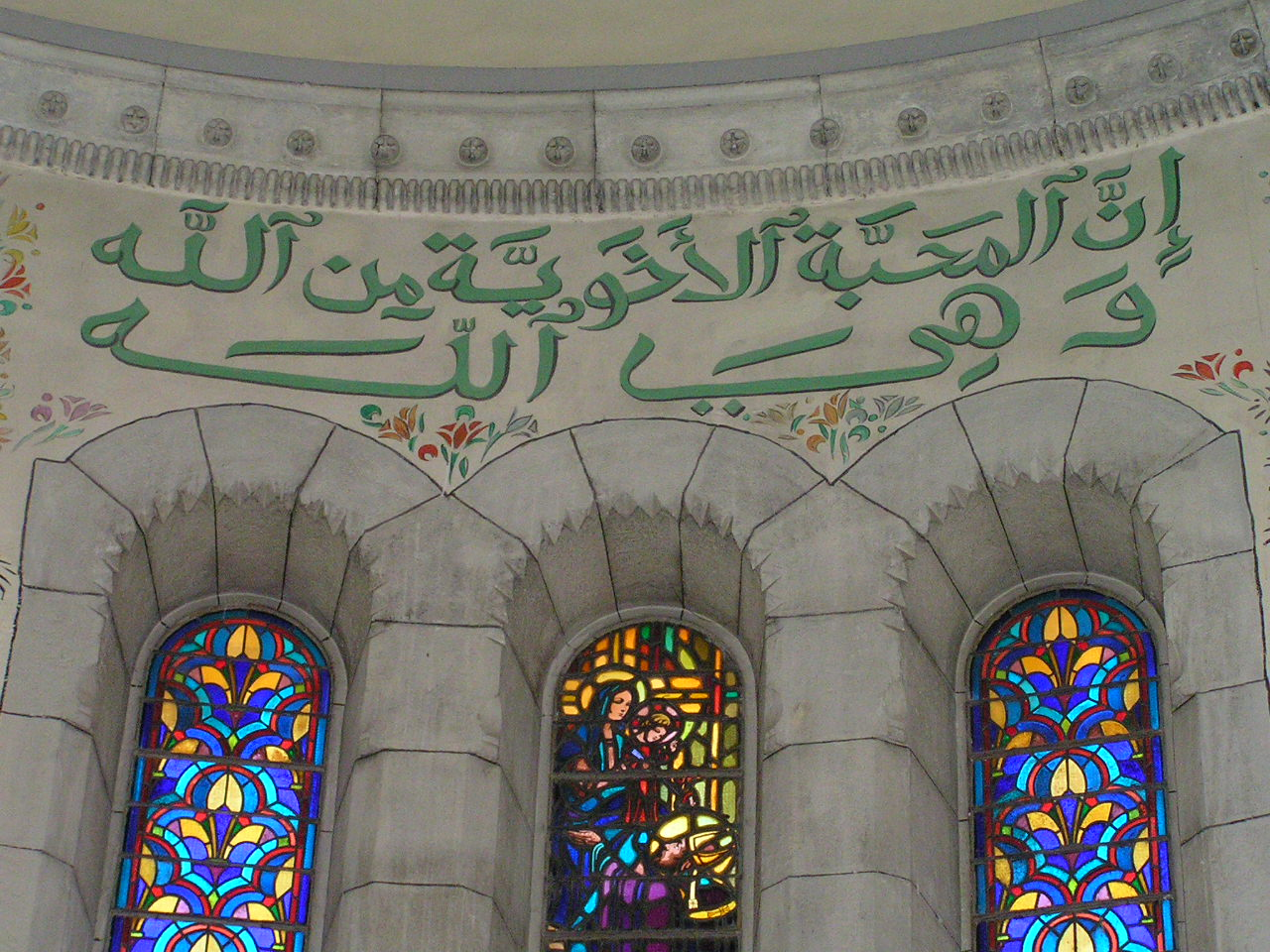 Inscription in Arabic on walls inside Our Lady of Africa basilica, in Algiers, Algeria. It says: “Brotherly love comes from God. It is God himself.”